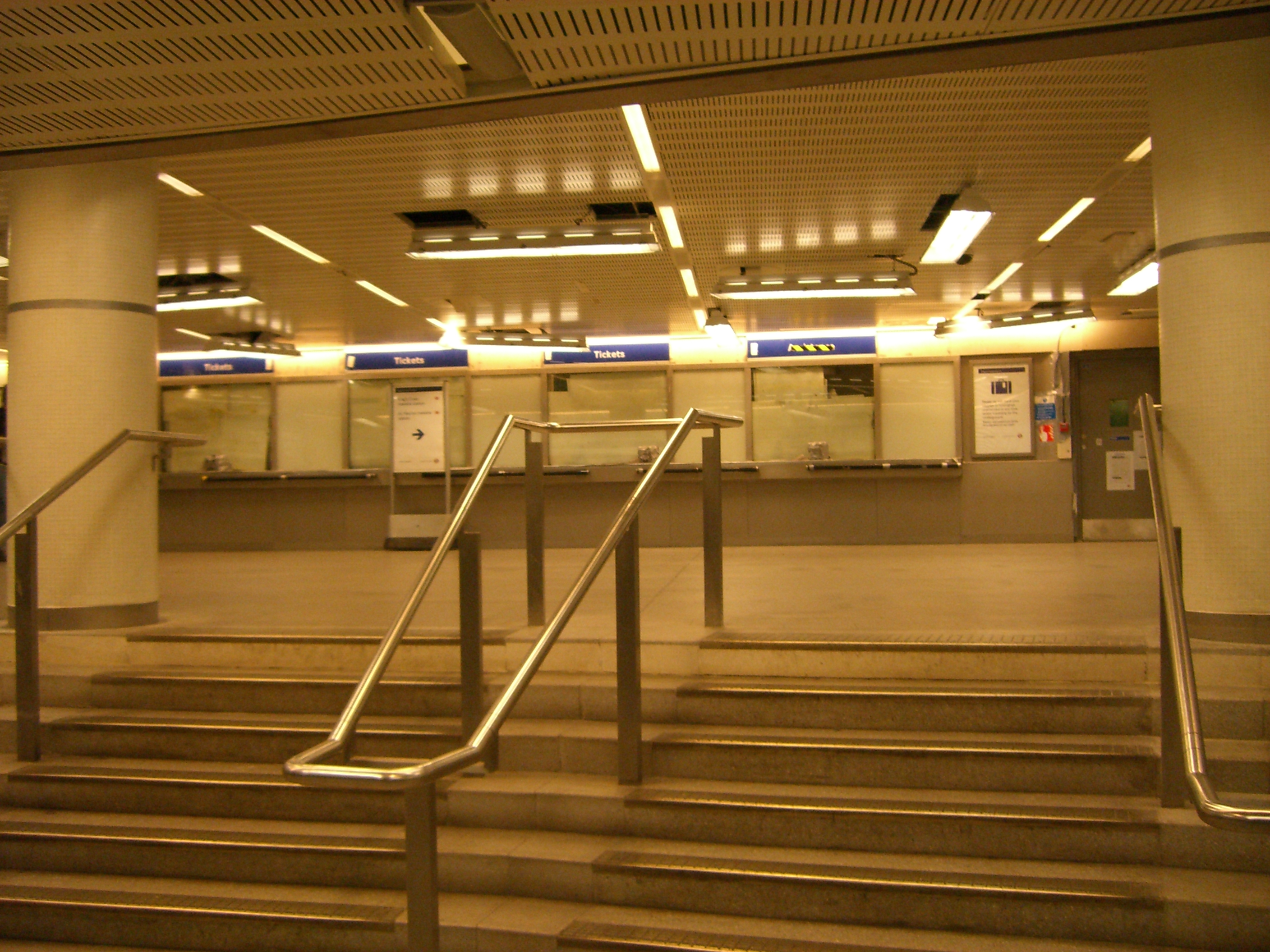 New ticket office at King's Cross St. Pancras tube station, not open yet. Photo taken by User:Edward on 26 March 2006 with a Casio EX-S600.